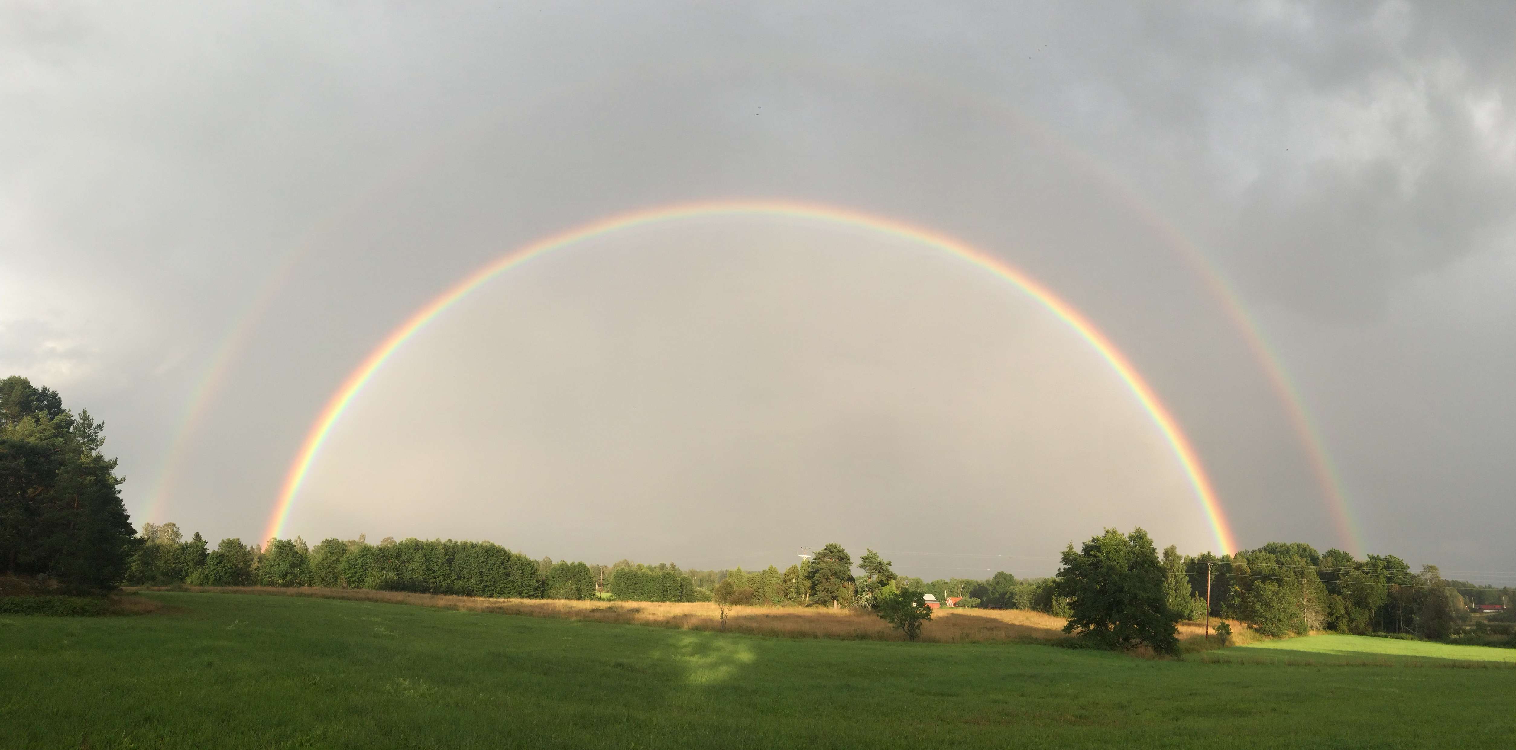 This picture of a double rainbow was taken in Österlisa (Norrtälje), Sweden.